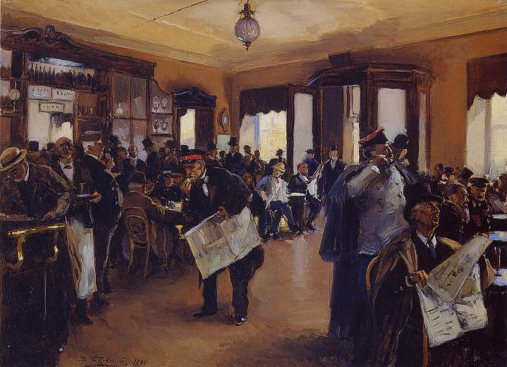 Scene at the cafe Dominic in St. Petersburg, Russian Empire (Nevsky prospect, 24).